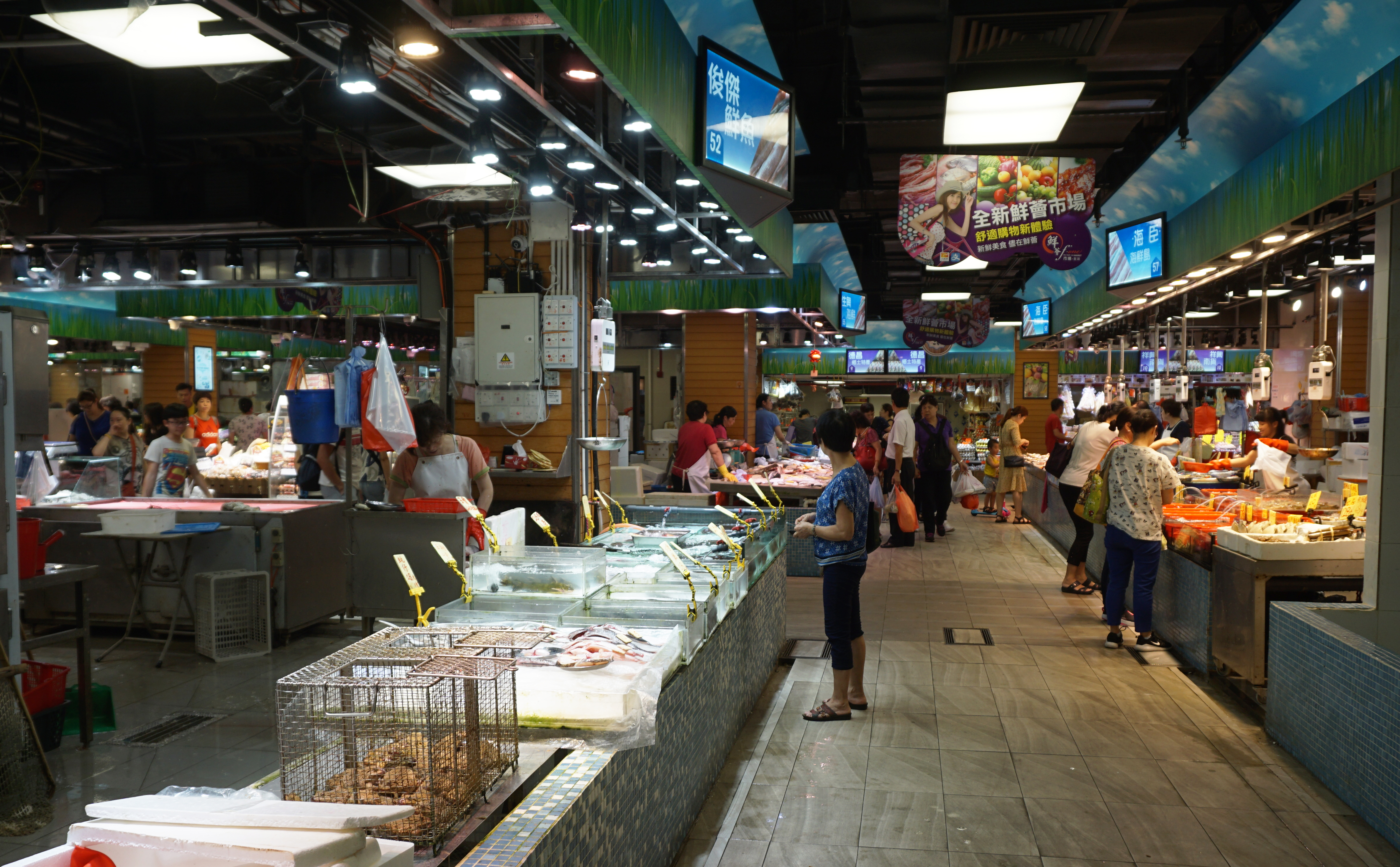 The Fresh One Market in Tai Wo Hau, Hong Kong.